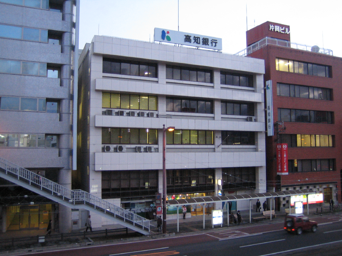 Kouchi Bank head office.